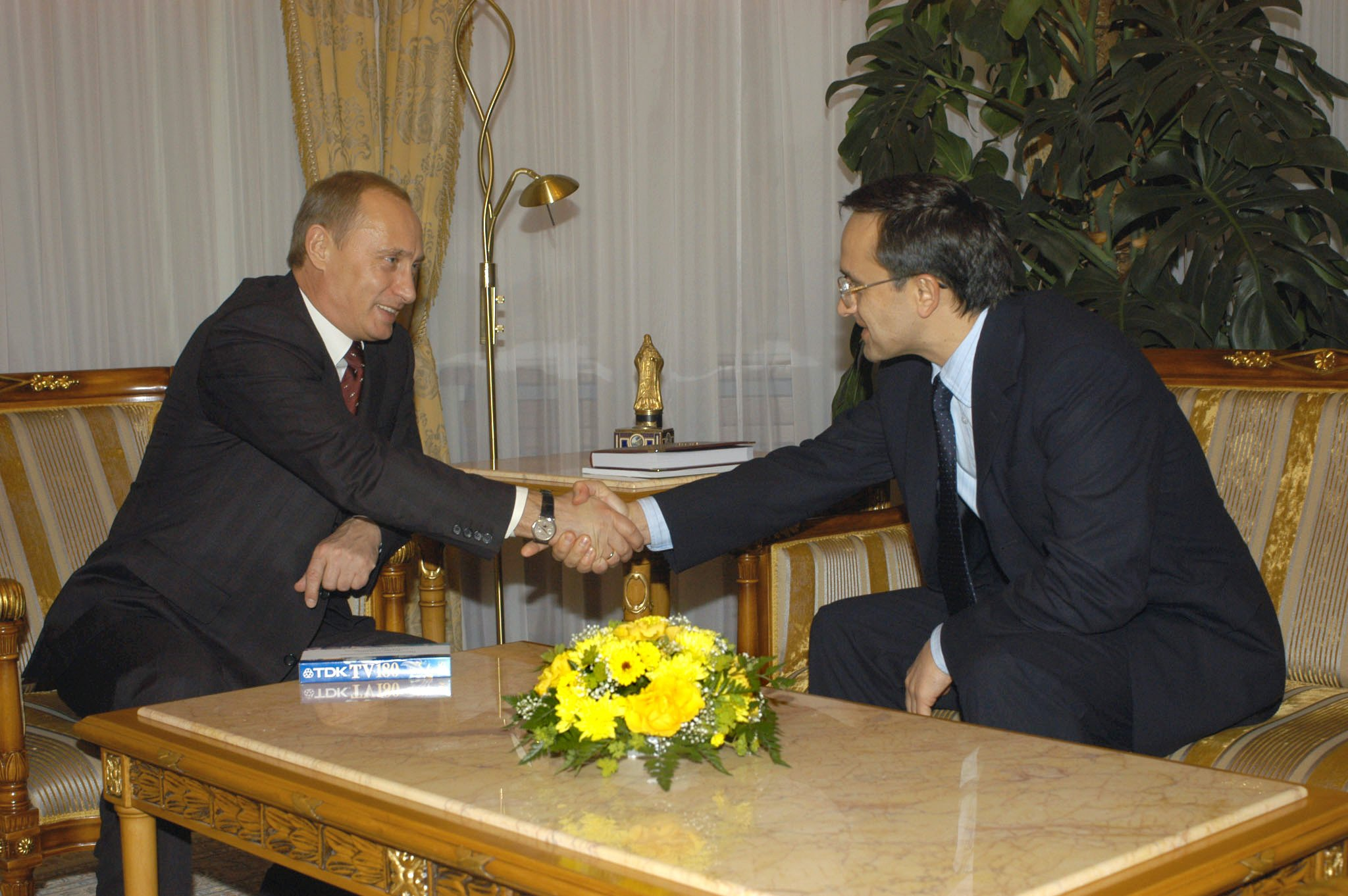 President Putin visited the Mosfilm Studios and met film director Andrey Zvyagintsev, whose film The Return won the top prize at the Venice International Film Festival in 2003.